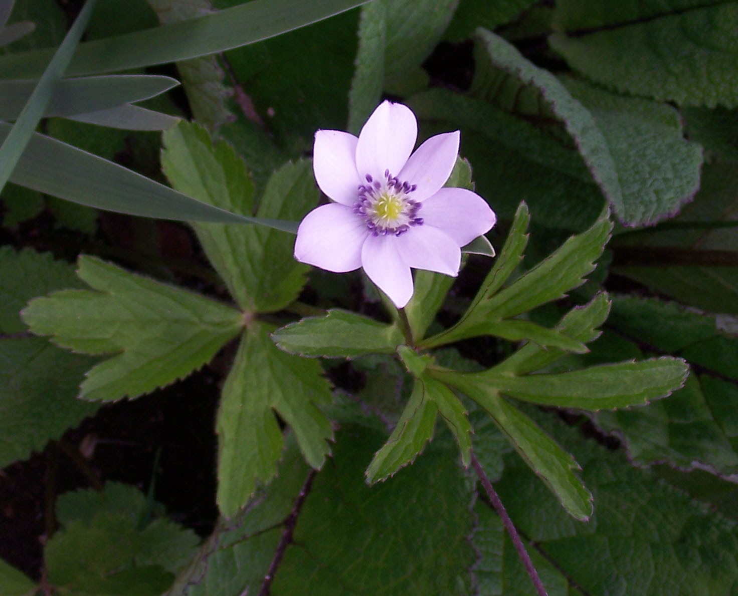 See User:Woudloper/Himalayan flora. Anemone rivularis (River Anemone). July, 3700 m, near Khumjung, Khumbu area, Nepal.